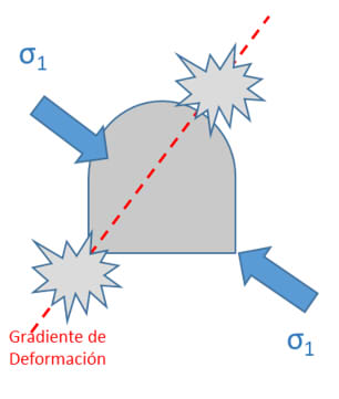 Tipo de mecanismo de inestabilidad controlado por esfuerzos. Necesita de un nivel relativamente medio-alto de concentración para que ocurra. Se genera una proyección de roca, cuantificada en orden de kilos de roca.